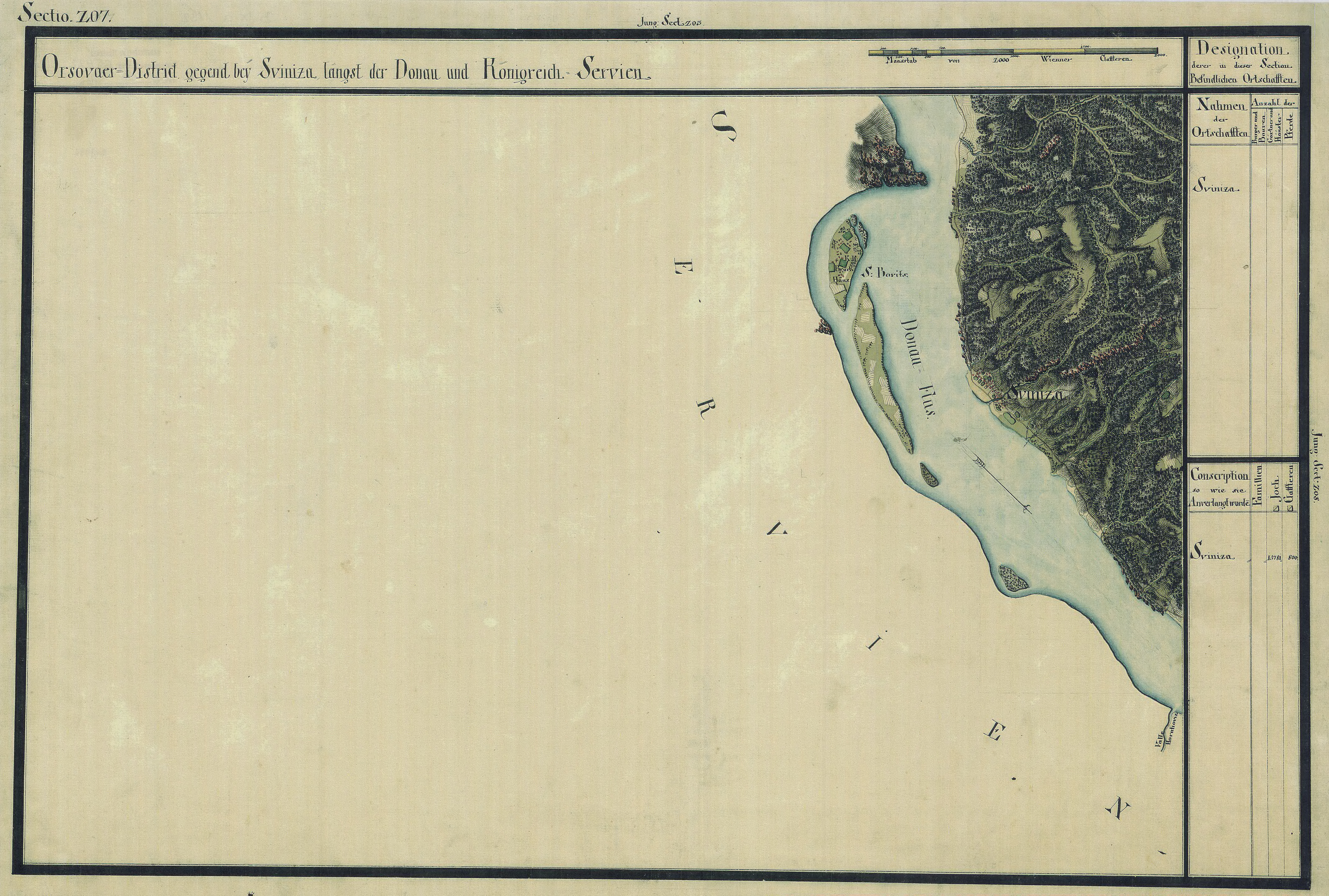 The Banat region in the cadastral maps: Josephinische Landesaufnahme, 1769-72. Josephinische Landaufnahme pg207